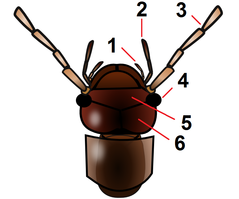 Earwig life cycle: 5 instars in svg going left to right (Forficula auricularia)